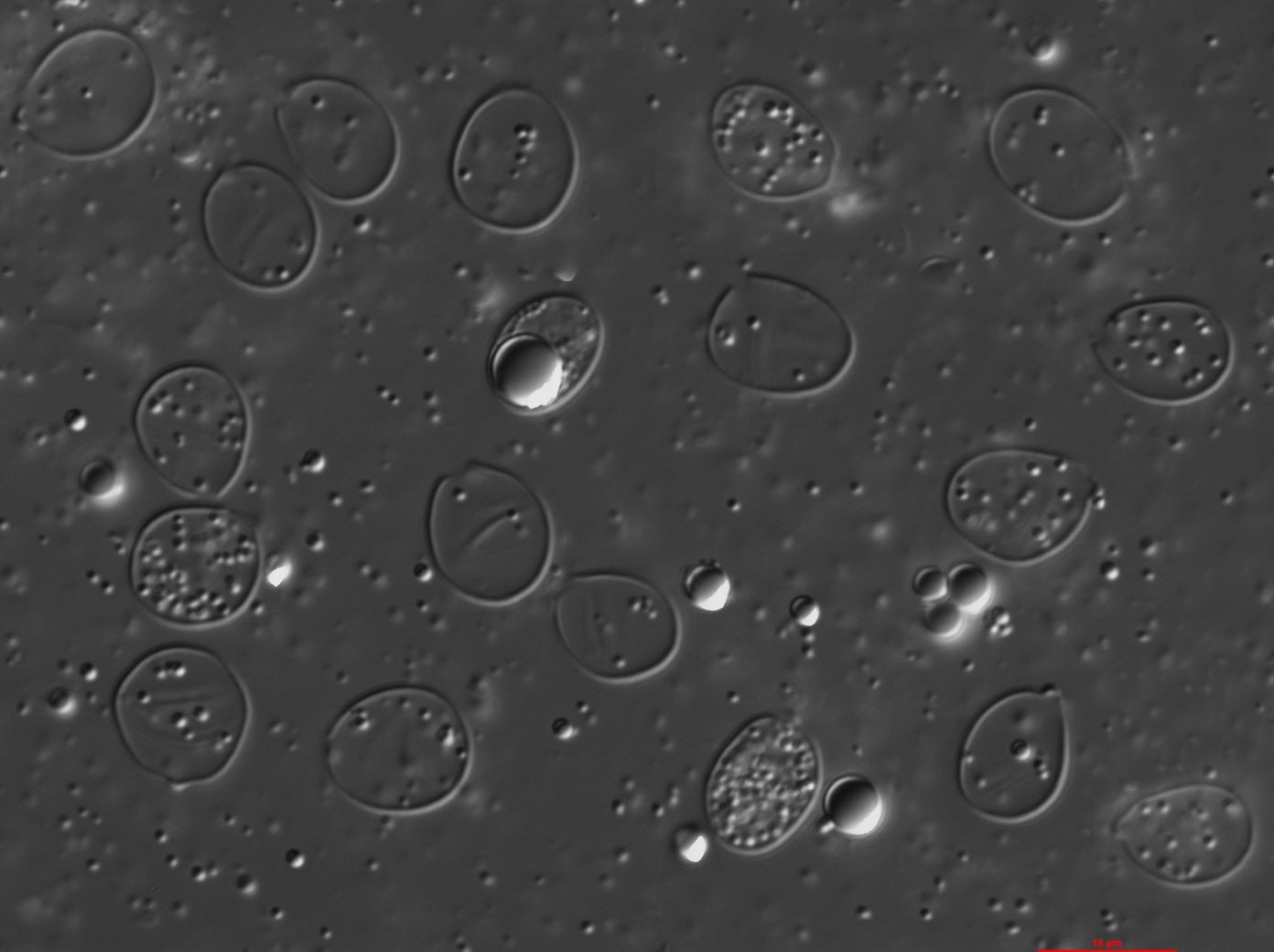 Craterellus cornucopioides spores 1000x DIC. From Muir Woods, Marin County, California.